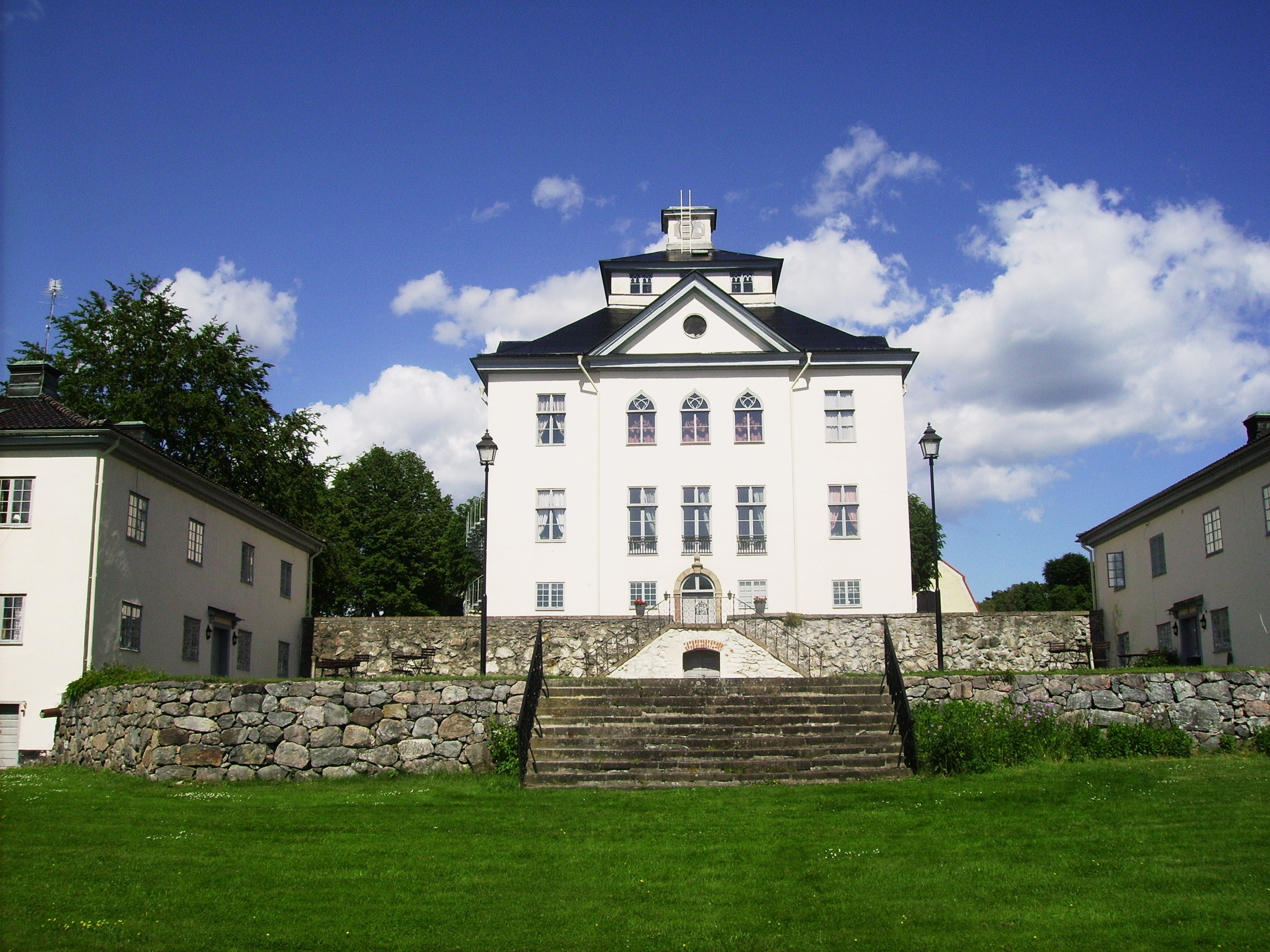 Picture of Öster Malma in Södermanland